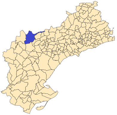 Flix